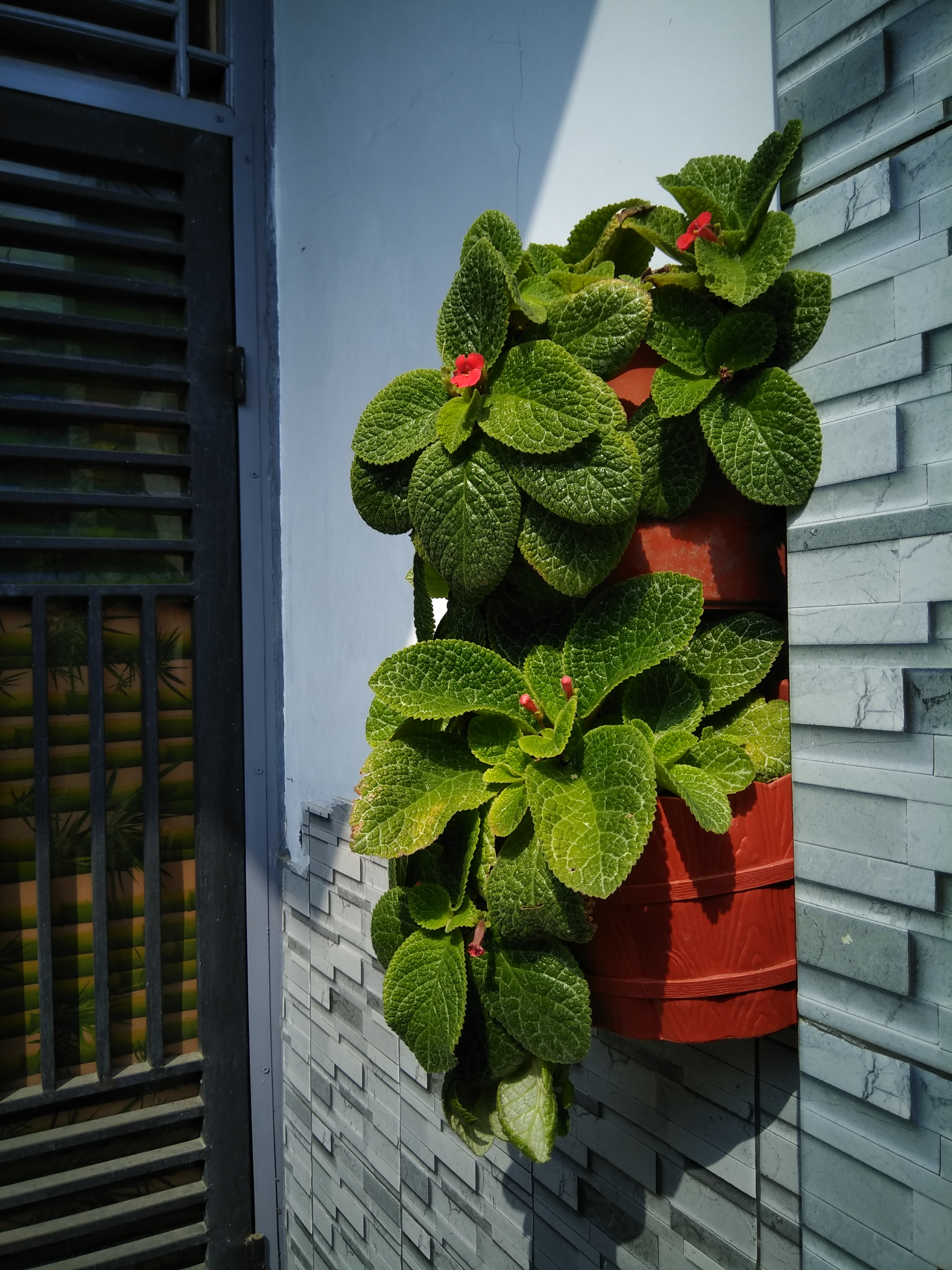 Episcia cupreata green viridiflora